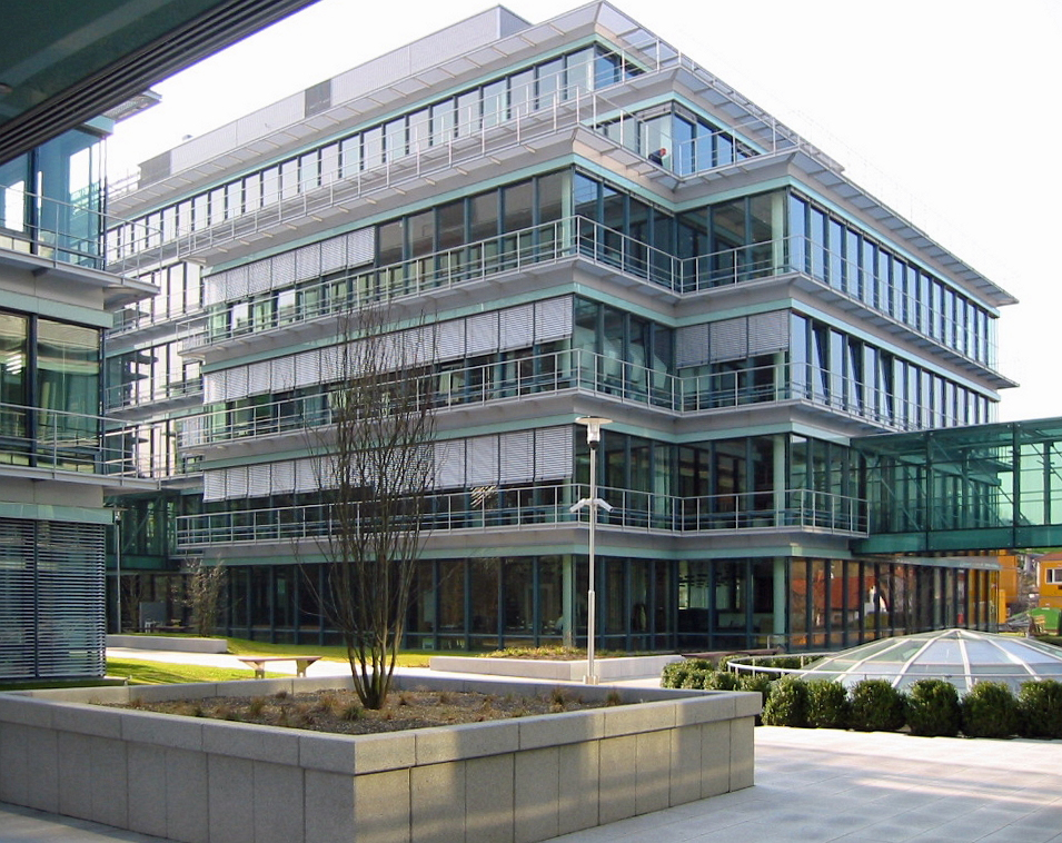 Headquarter Accenture ASG, Campus Kronberg